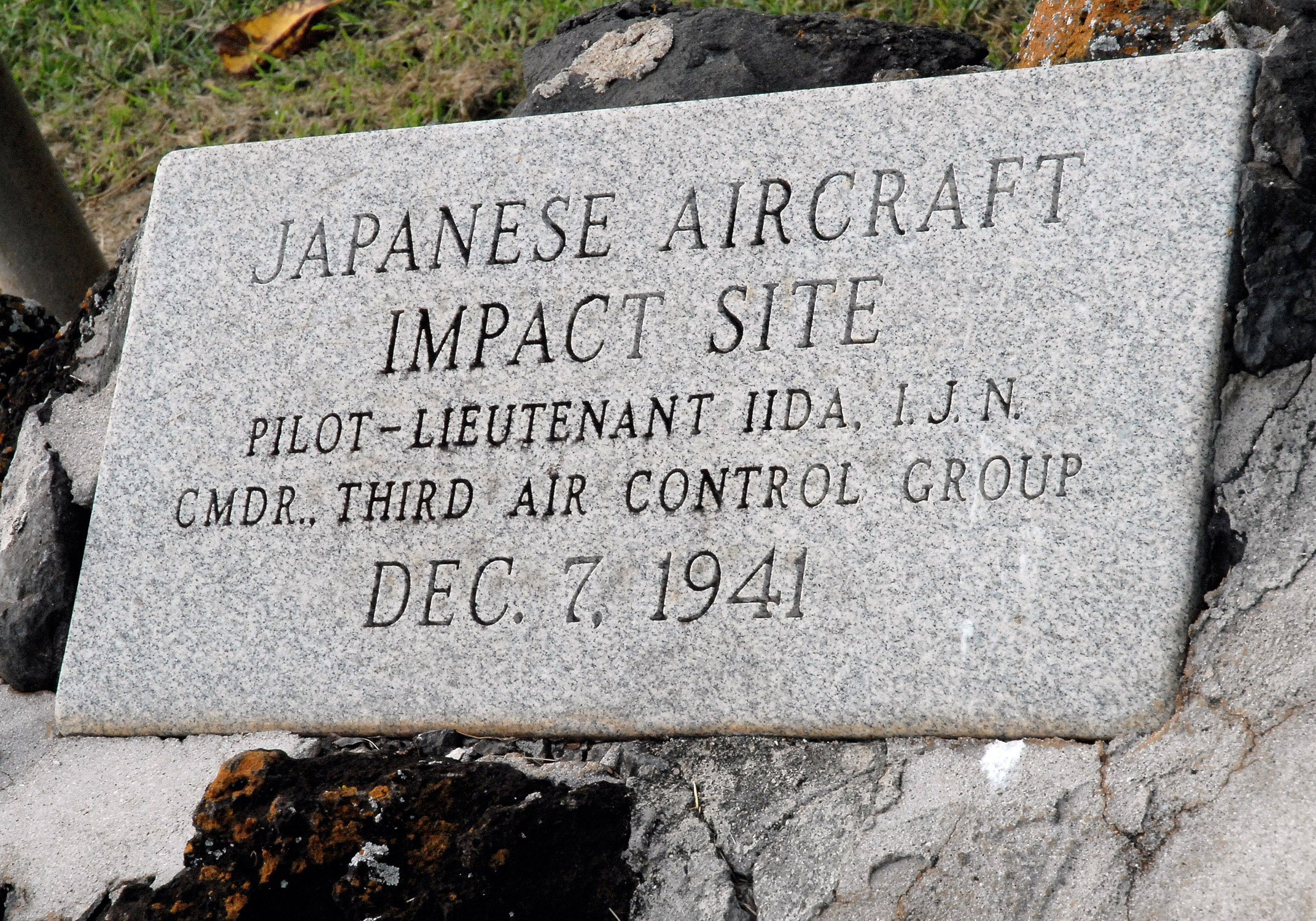 Pearl Harbor, Hawaii (Dec. 3, 2006) - A monument marks the impact site of Japanese pilot Lt. Iida, who crashed during the 1941 attack on Pearl Harbor. Survivors and media took part in a joint U.S. Navy/National Park Service ceremony commemorating the 65th Anniversary of the attack on Pearl Harbor. More than 1,500 Pearl Harbor Survivors, their families and friends from around the nation are scheduled to join more than 2,000 distinguished guests and the general public for the annual observance of the Dec. 7, 1941, attack on Pearl Harbor. The theme of this year's historic commemoration "A Nation Remembers" reflects on how the remembrance of Pearl Harbor has evolved throughout the years since World War II. U.S. Navy photo by Mass Communication Specialist Seaman Daniel A. Barker (RELEASED)